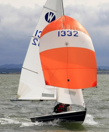 National champions 2009 - Richard and Mark Hartley